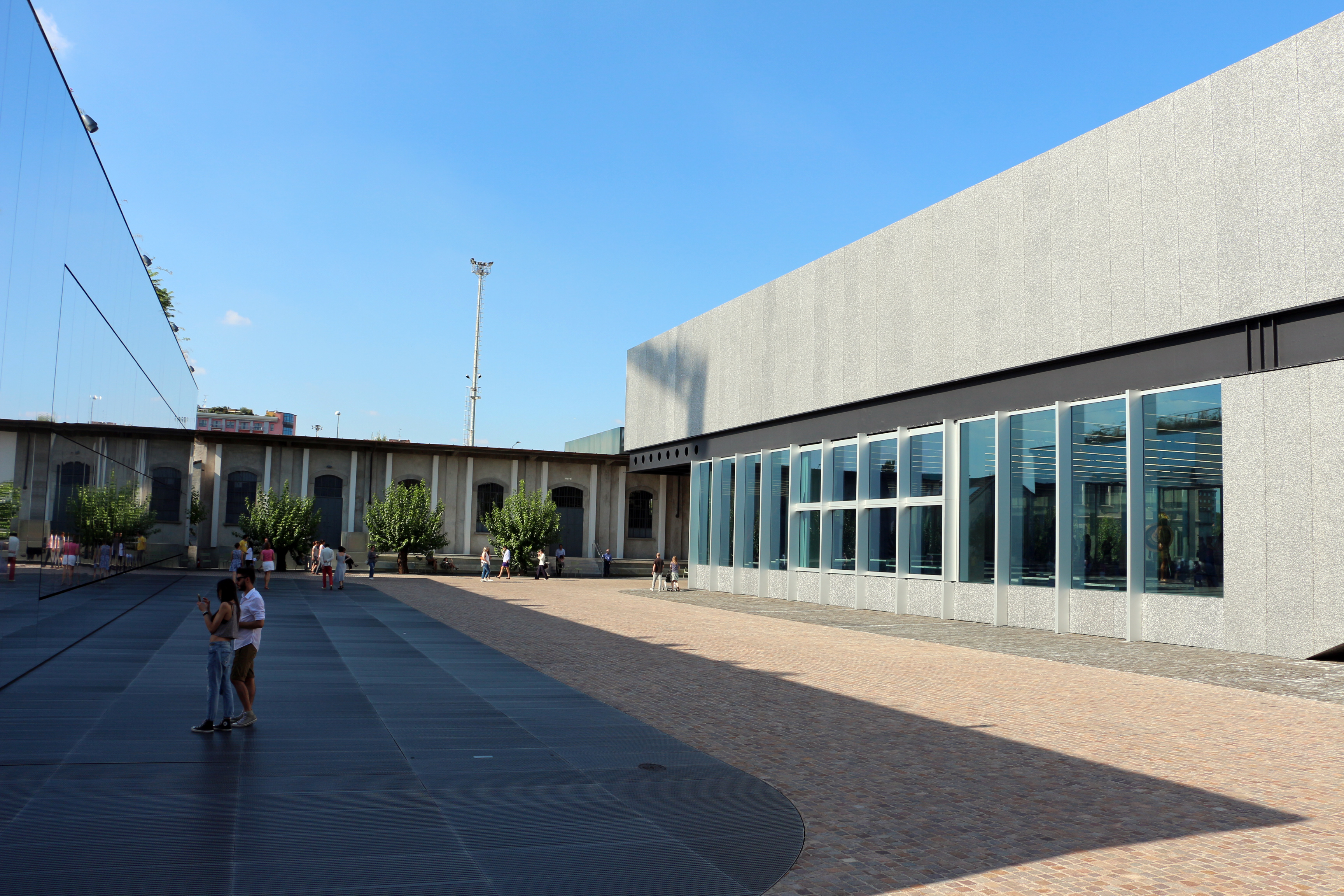 Fondazione Prada (Milan)